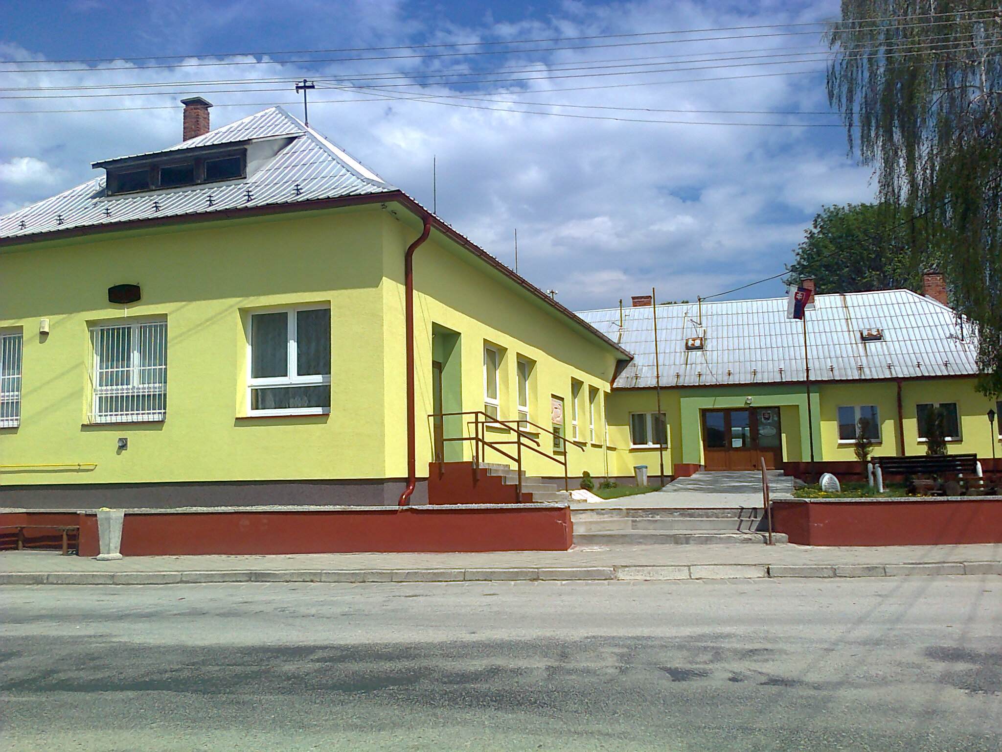 Local municipal office